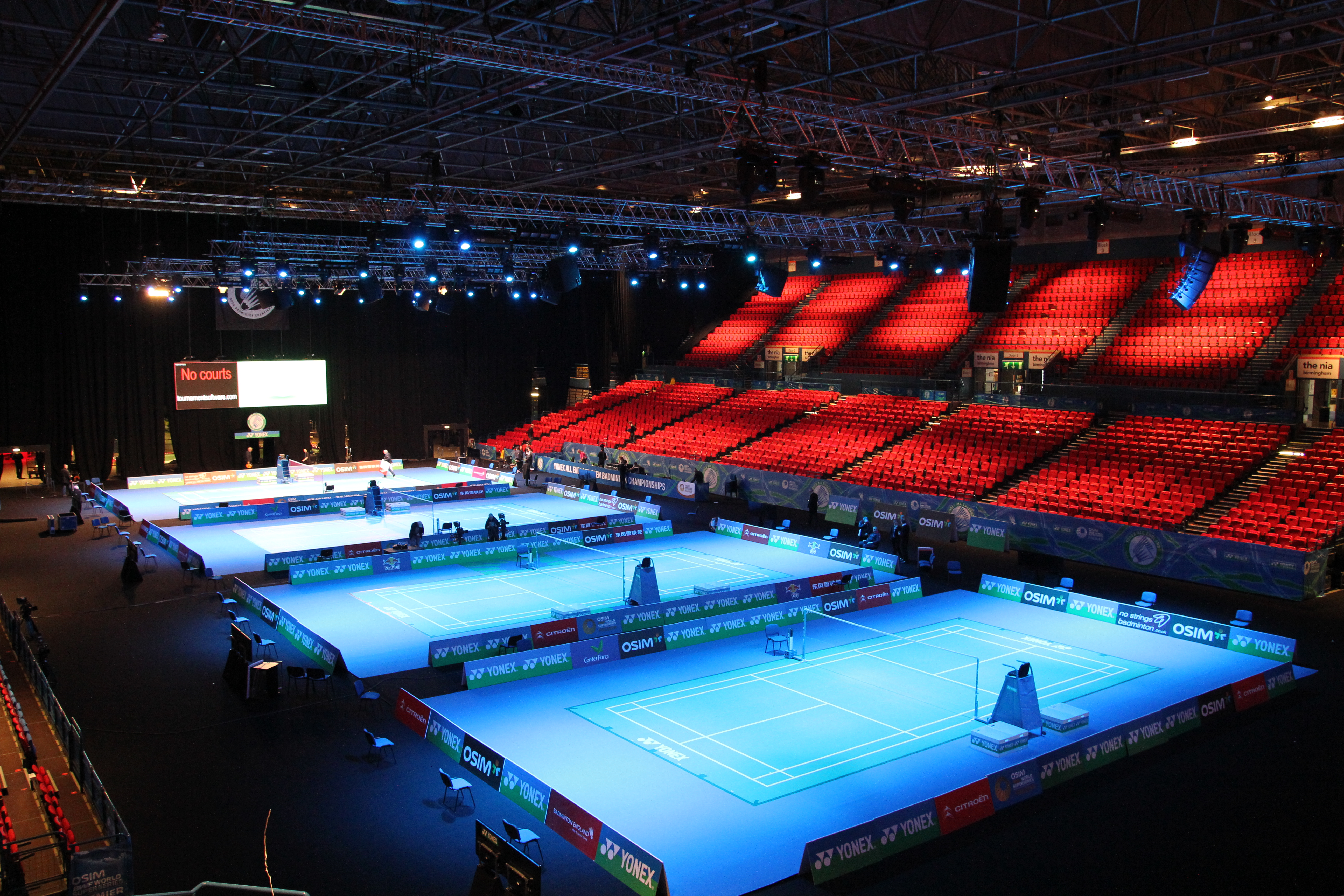 The NIA prepared for the 2012 Yonex All-England Open Badminton Championships.